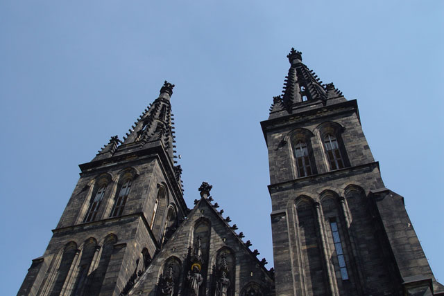 Description: Kostel sv. Petra a Pavla (St. Peter & Paul Church)at Vyšehrad, Praha, Czech Republic Author: Bernd Janning, Date: August 29th, 2005